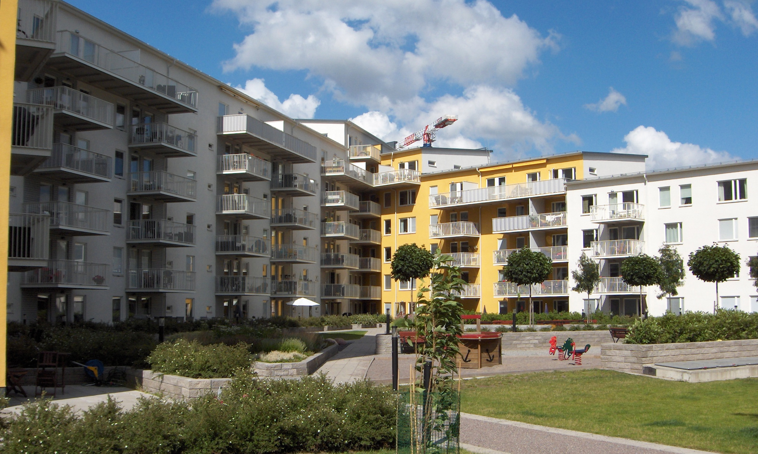 Buildings in Frösunda, Solna, Sweden.